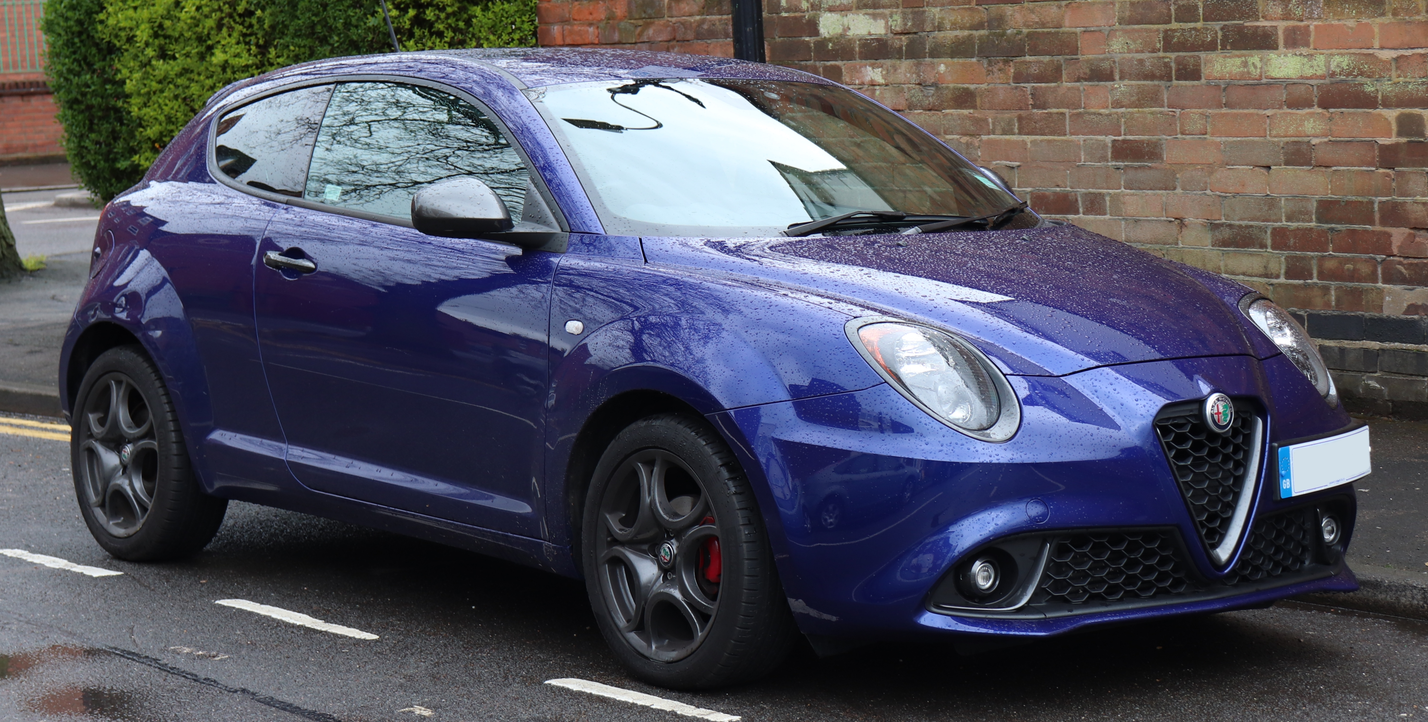 2017 Alfa Romeo MiTO Speciale TwinAir 900cc Taken in Leamington Spa